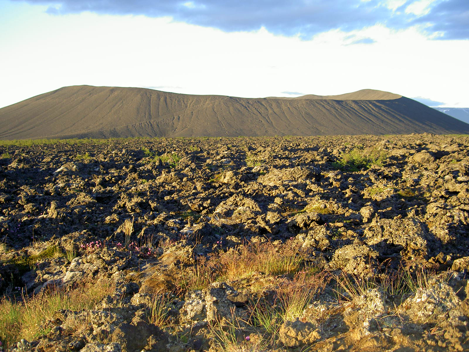 A field of lava and Hverfjall near Mývatn.